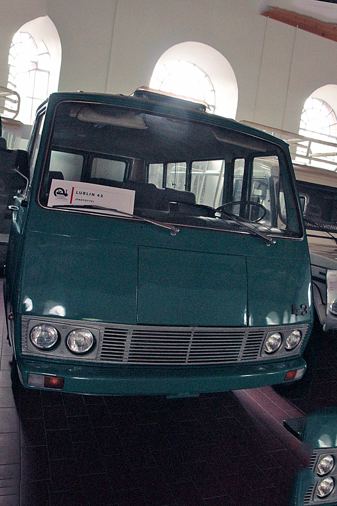 This photo was taken during Automotive Wikiexpedition 2016 set up by Wikimedia Polska Association. You can see all photographs in category Wikiekspedycja motoryzacyjna 2016. English | Polski | +/−